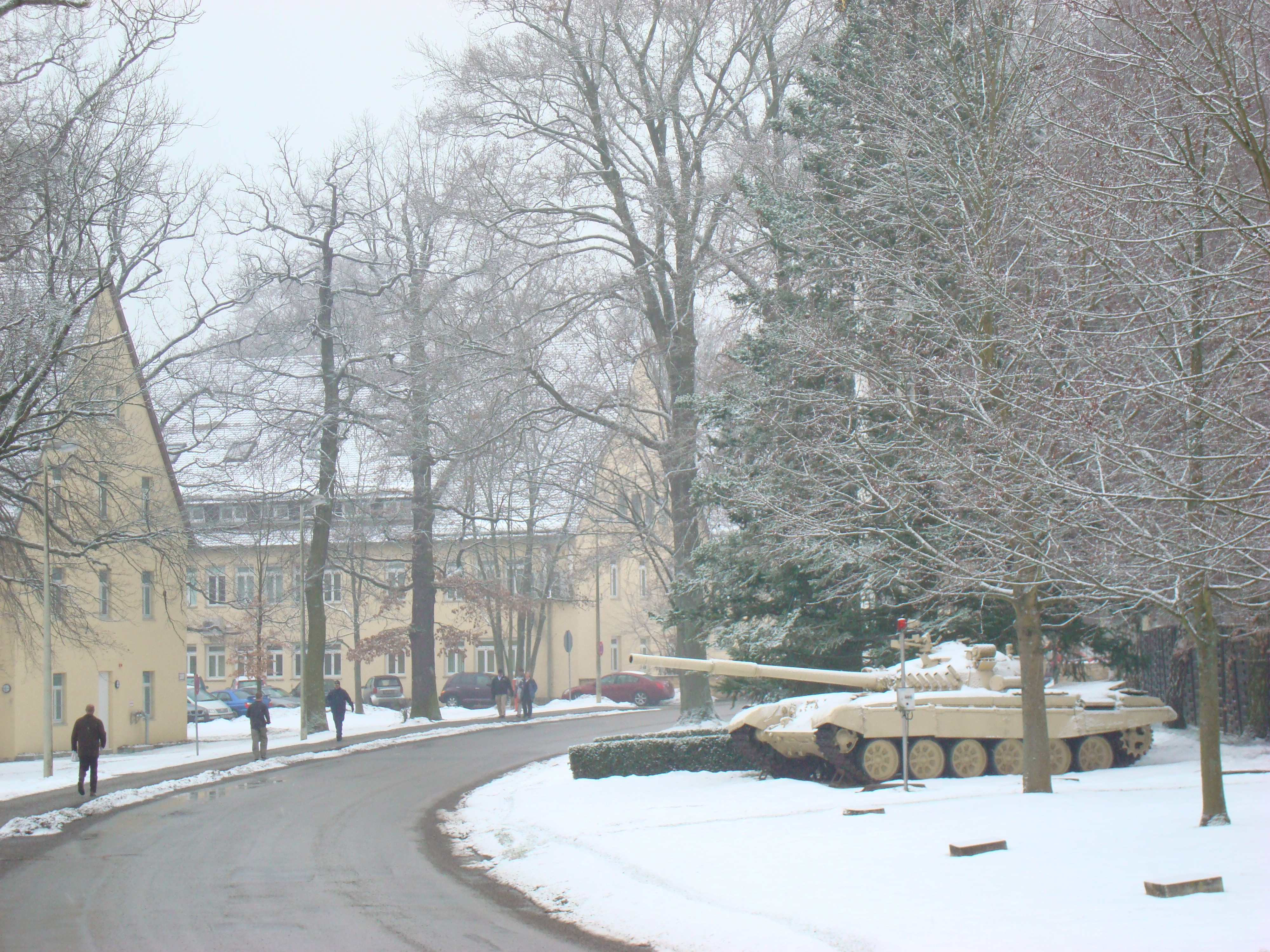 Armor memorial at Kelley Barracks, Stuttgart, Germany.